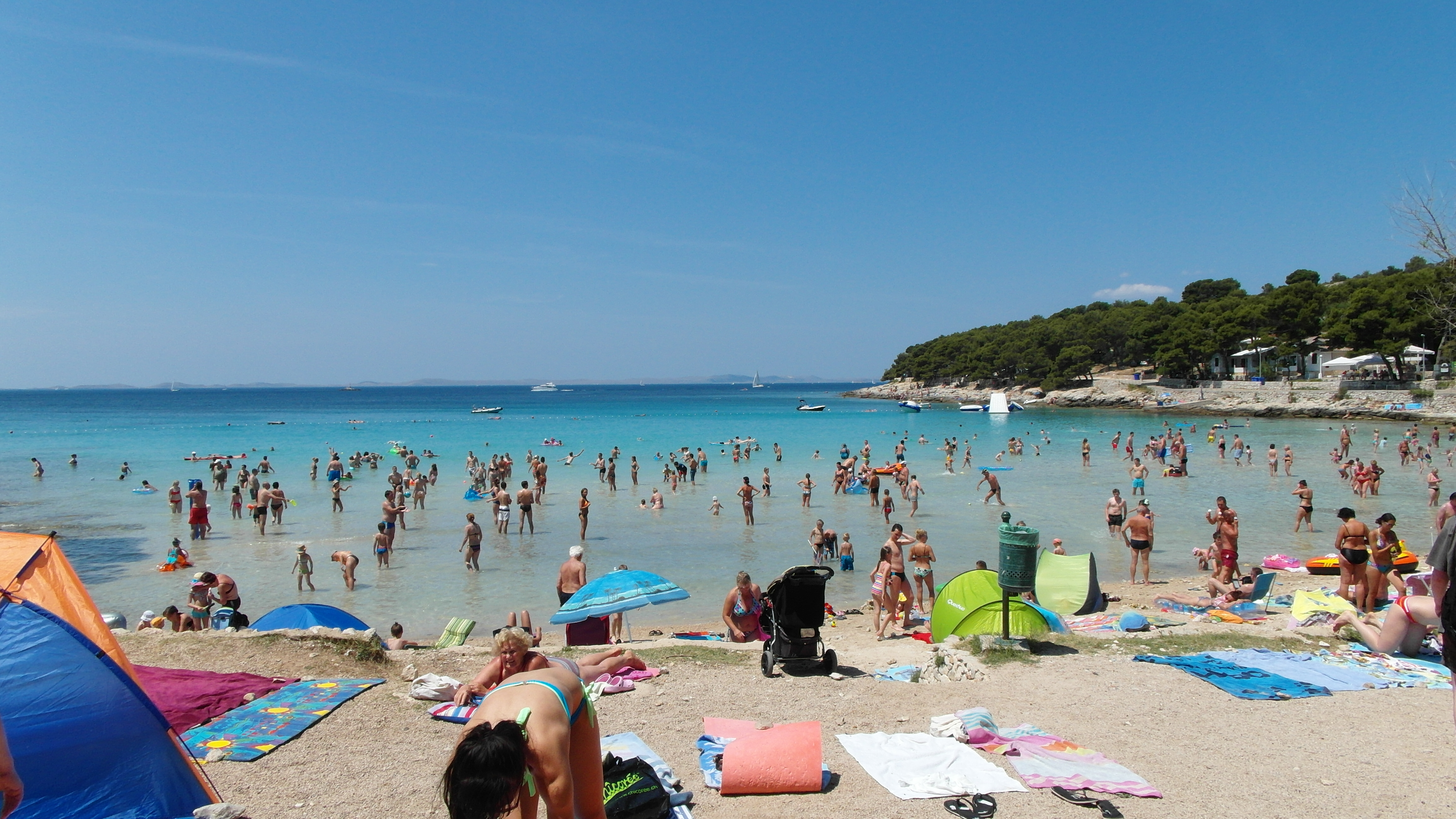 Sandy beach Slanica, Murter.